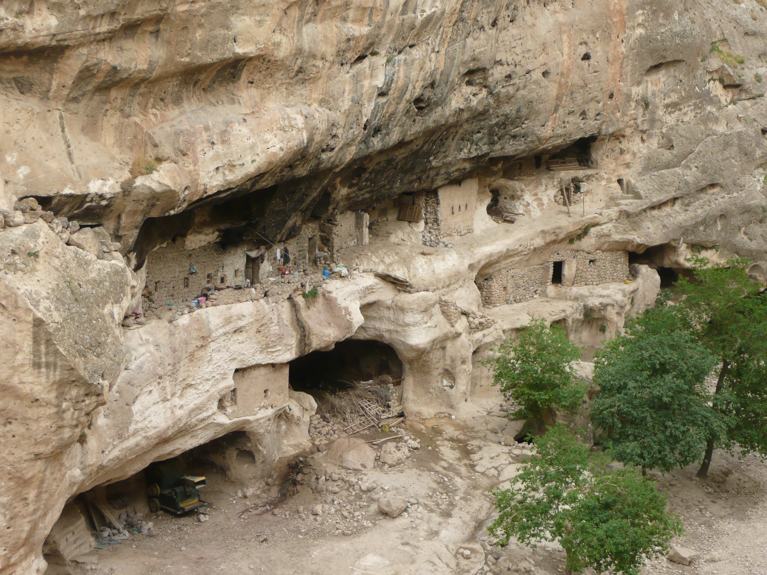 Photographs from Hasankeyf, Batman, Turkey